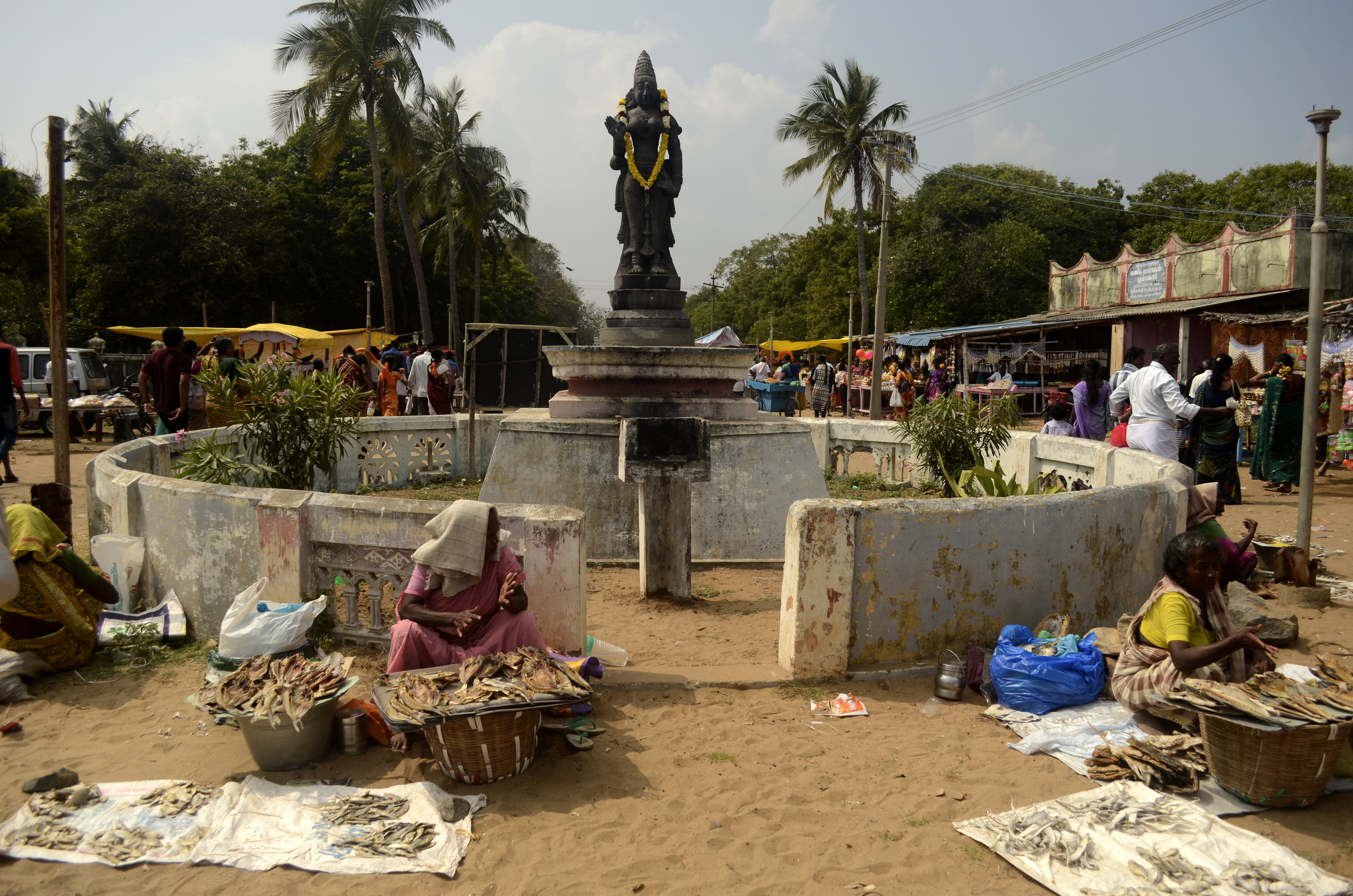 Dry fish sellers in Poompuhar in front of Kannagi statue